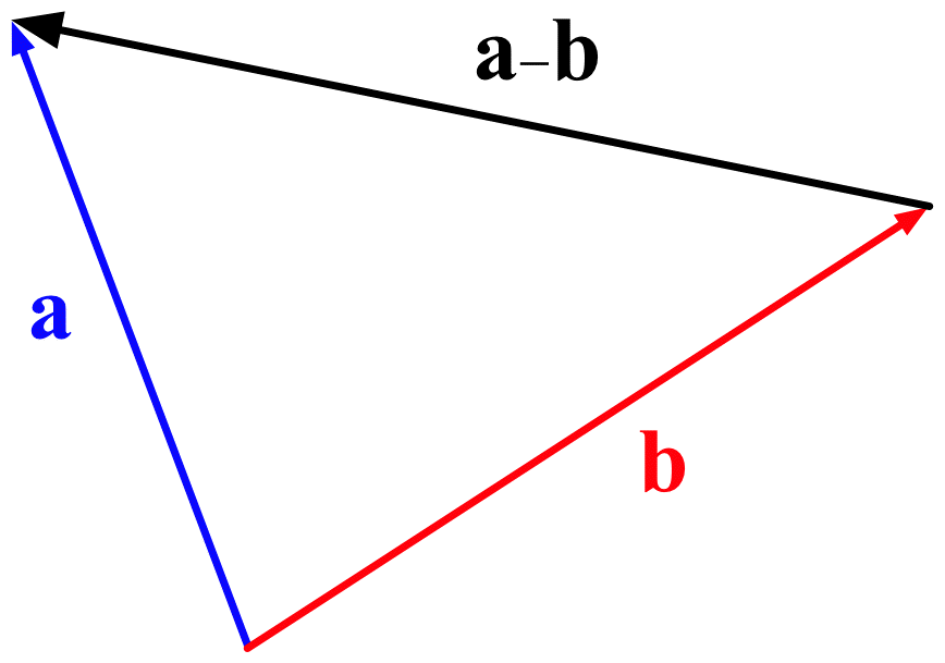 Diagram illustrating the subtraction a−b of vectors a and b.